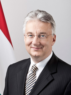 Zsolt Semjén, Hungarian politician, Deputy Prime Minister in the Second Cabinet of Viktor Orbán